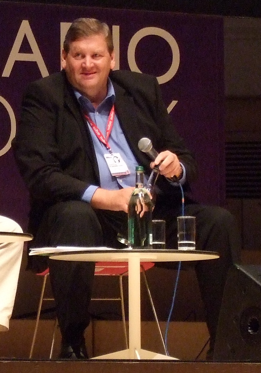 John Myers co-presents a special edition of 'Fighting Talk' at the Radio Festival 2008